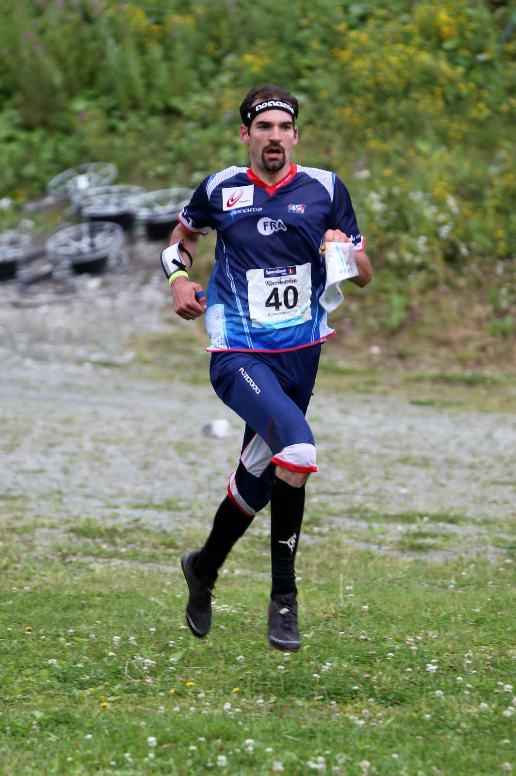 Thierry Gueorgiou at World Orienteering Championships 2010 in Trondheim, Norway